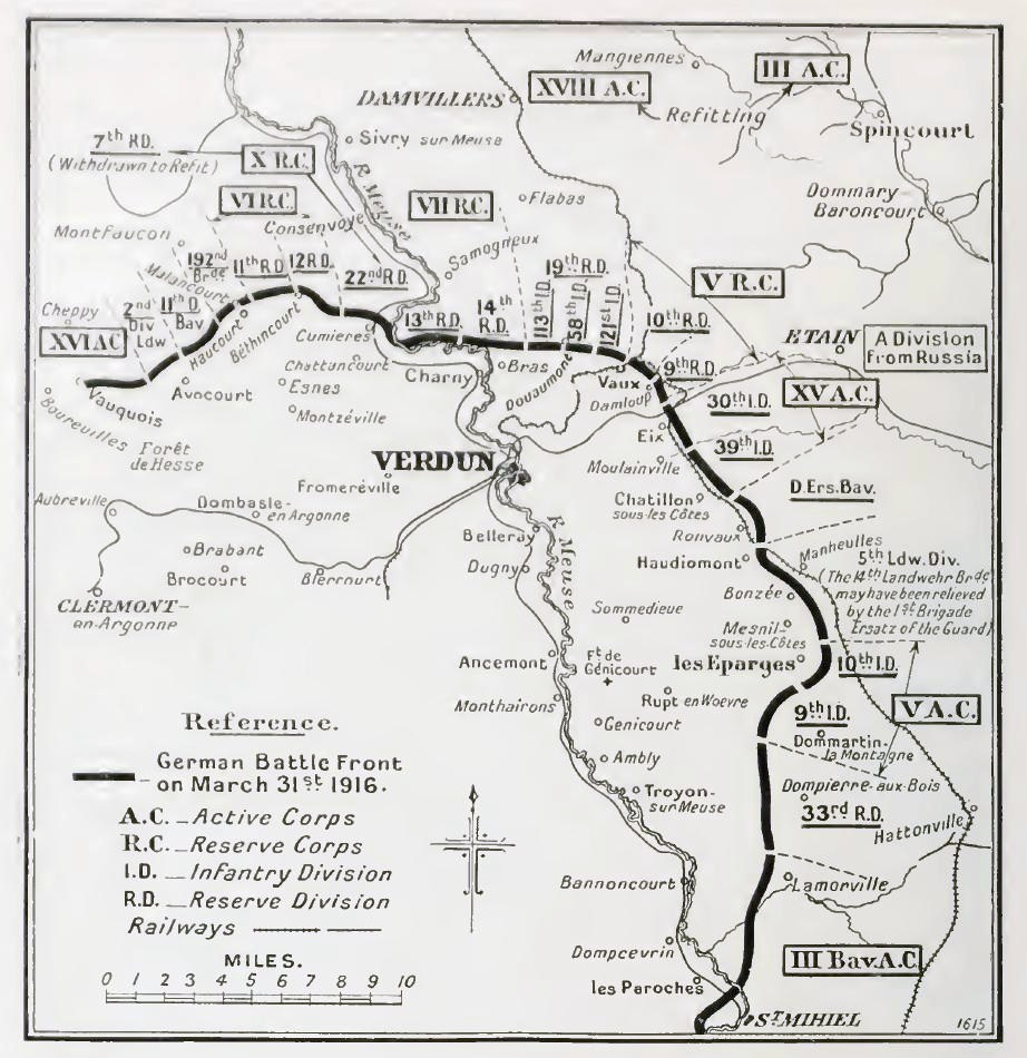 German dispositions at Verdun, 31 March 1916